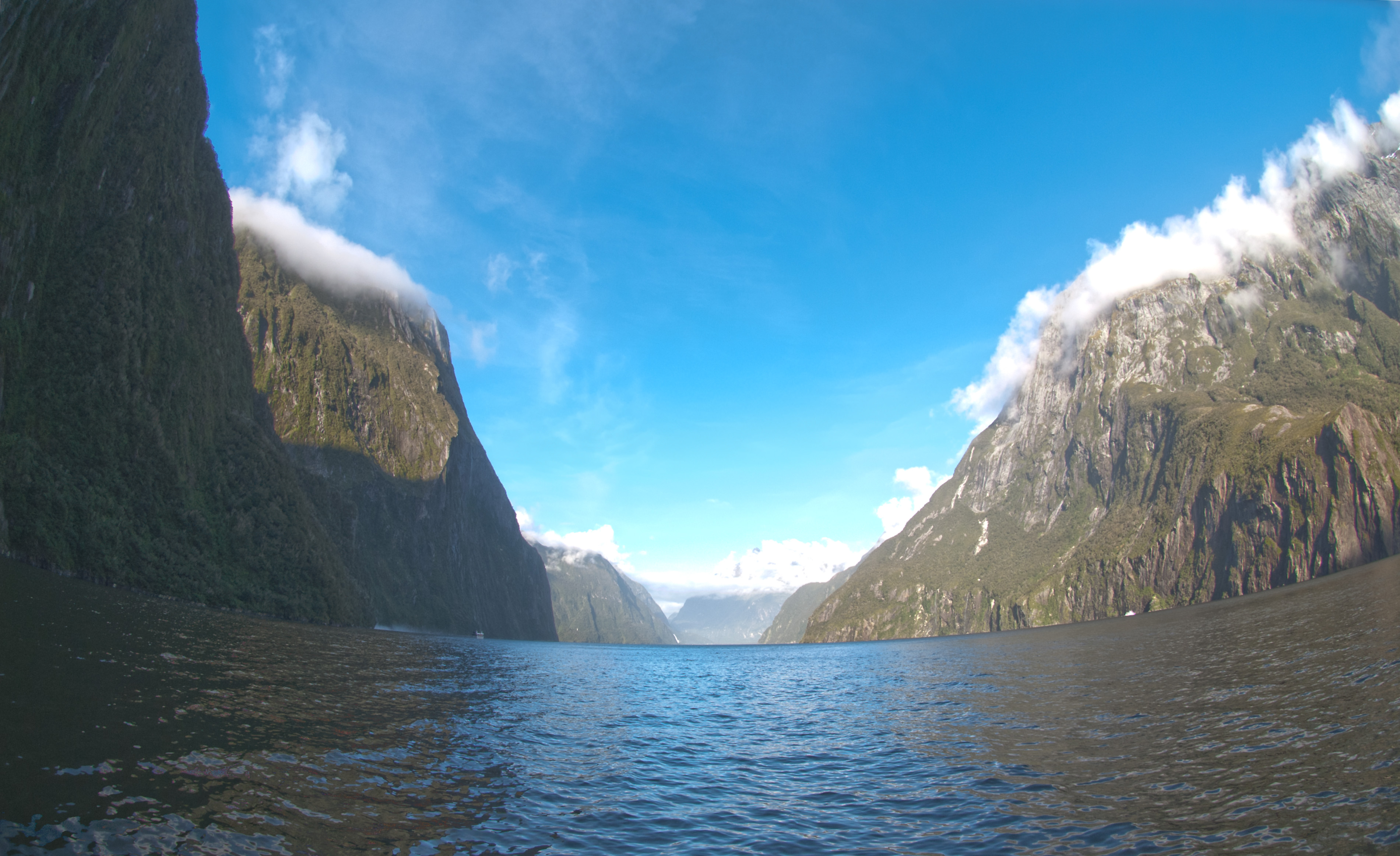 Milford Sound (HDR)